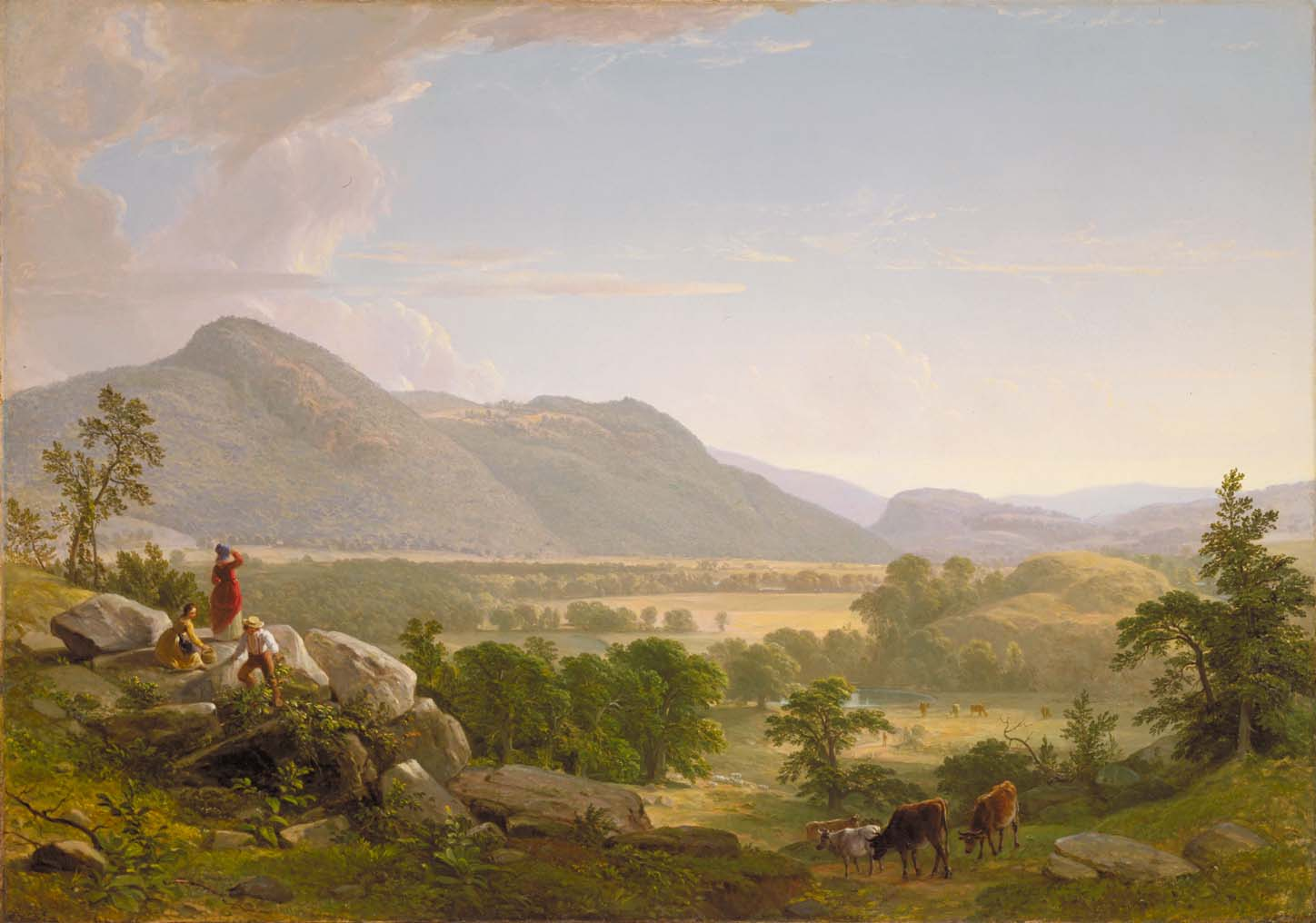 Dover Plain, Dutchess County, New York